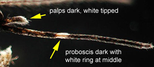 Aedes taeniorhynchus adult proboscis taken by Michele Cutwa courtesy of UFL-FMEL (University of Florida - Florida Medical Entomology Laboratory)